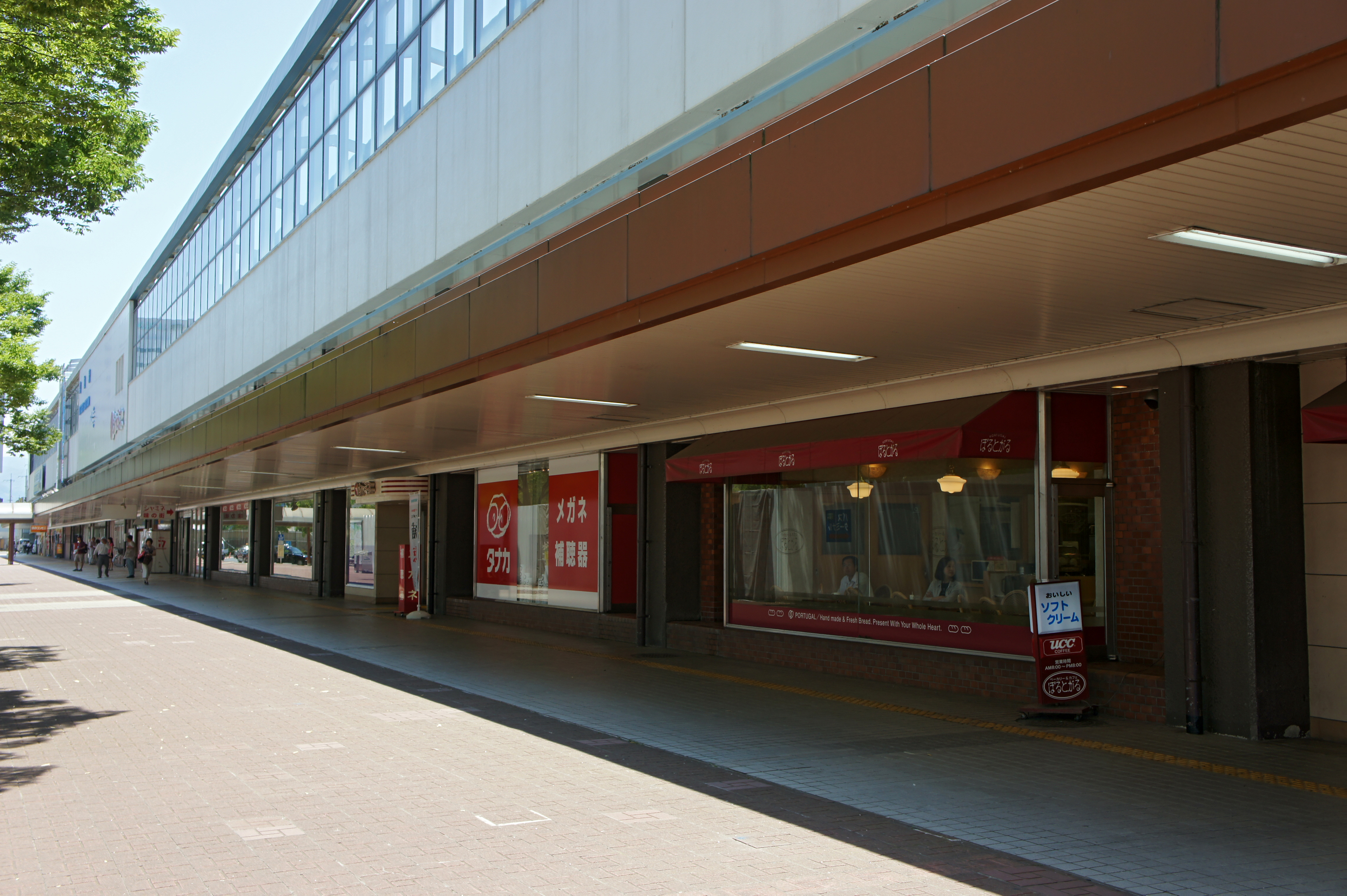 Tottori Station in Tottori, Tottori prefecture, Japan